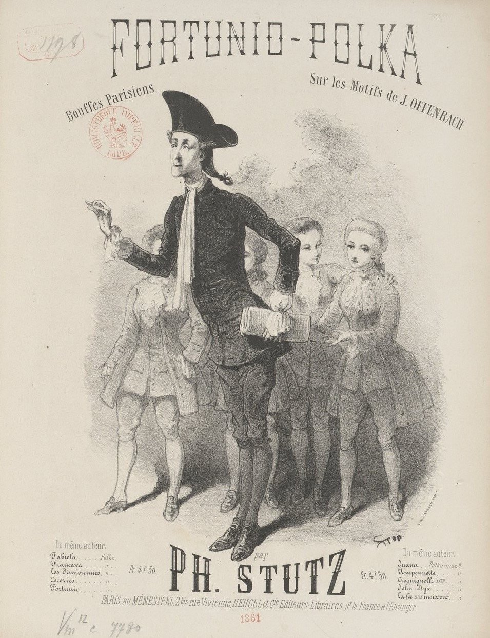 Fortunio-polka by Philippe Stutz on motives from Jacques Offenbach's opéra-comique Le chanson de Fortunio" (1861), title page of partition with an engraving by Stop representing the actor Bache as Friquet